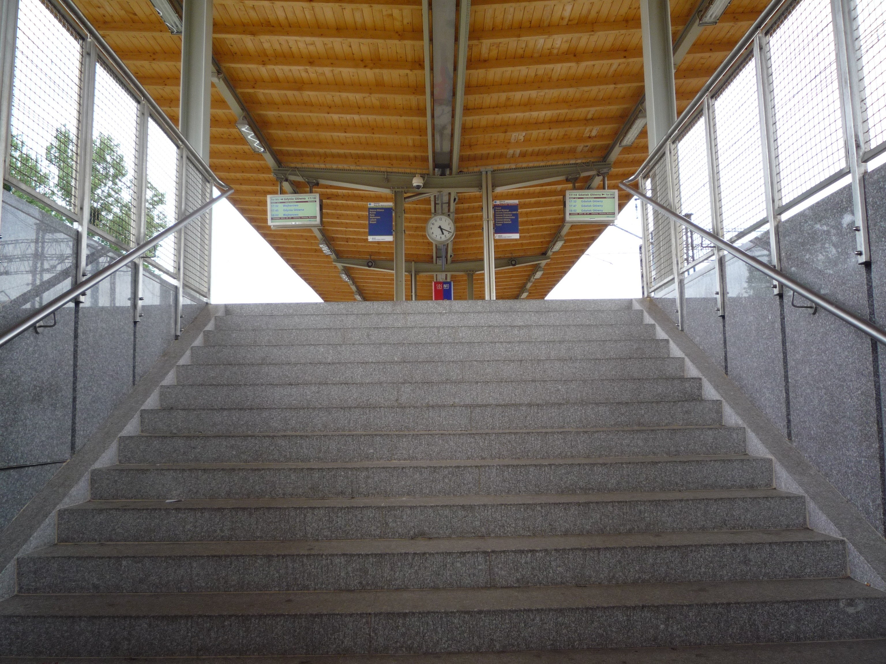 Stairs from tunnel to platform on SKM station Gdynia Wzgórze św. Maksymiliana.